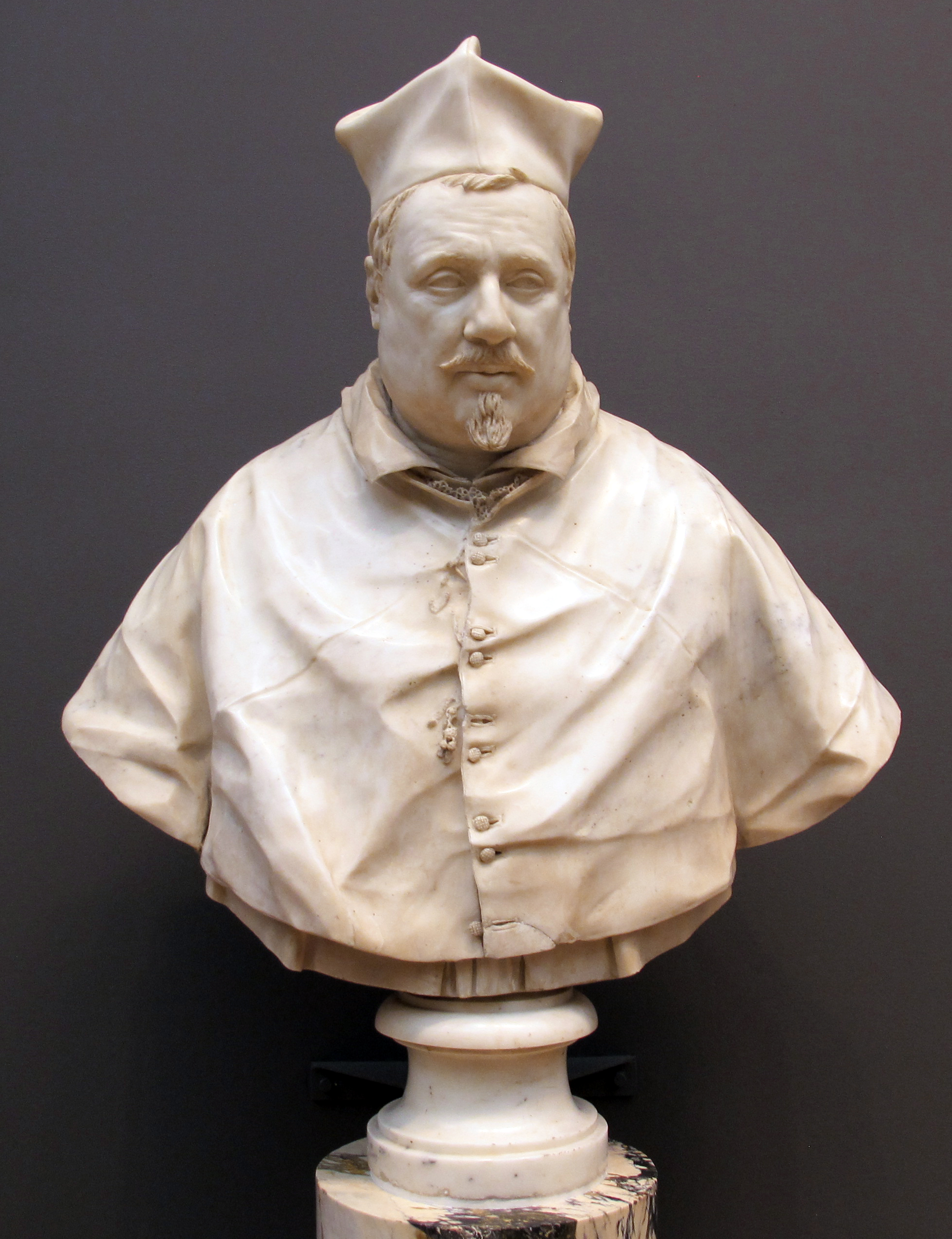 Sculptures in the Metropolitan Museum of Art